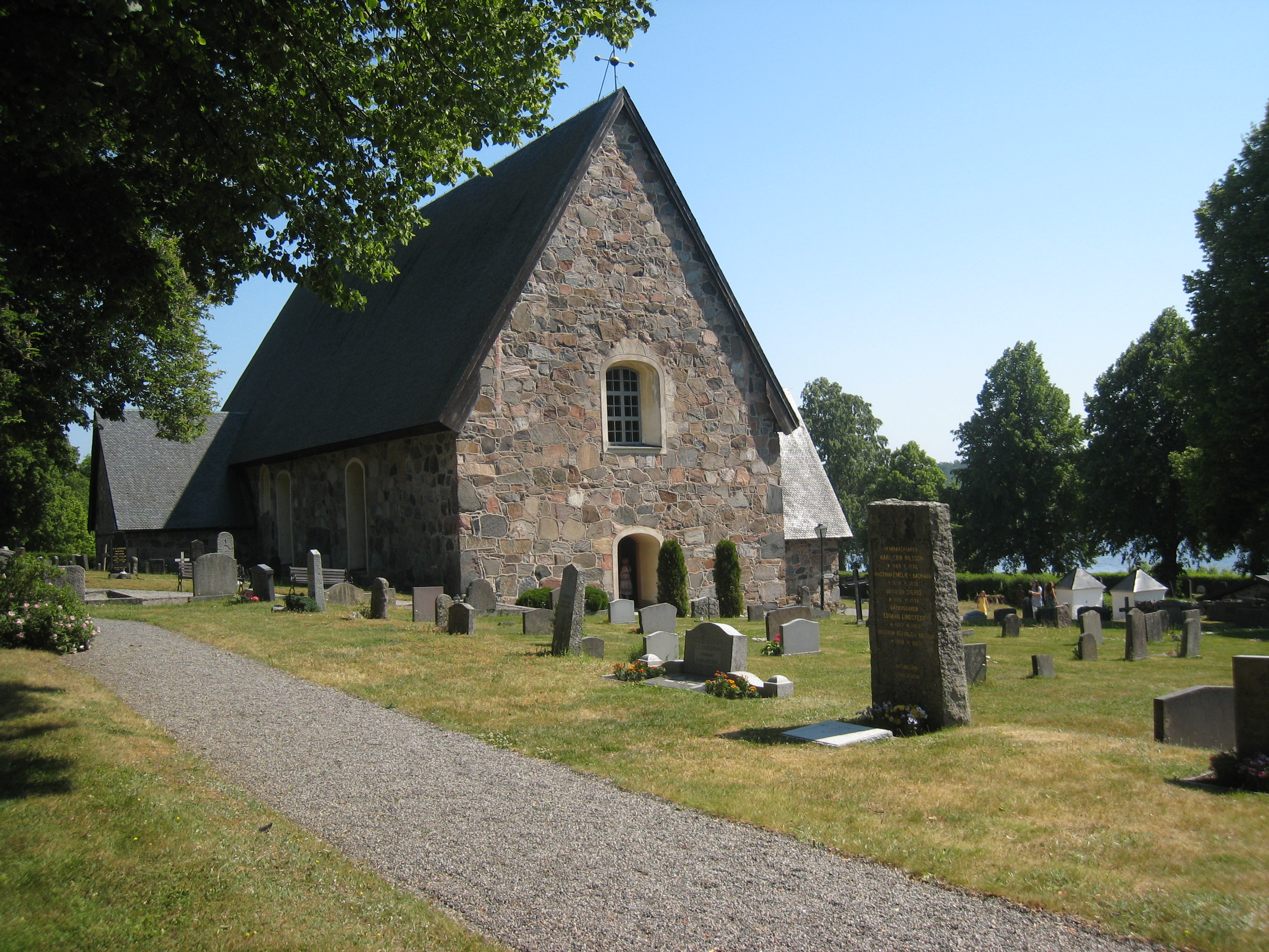 Länna church, Uppland, Sweden, west facade, photo from north-west angle